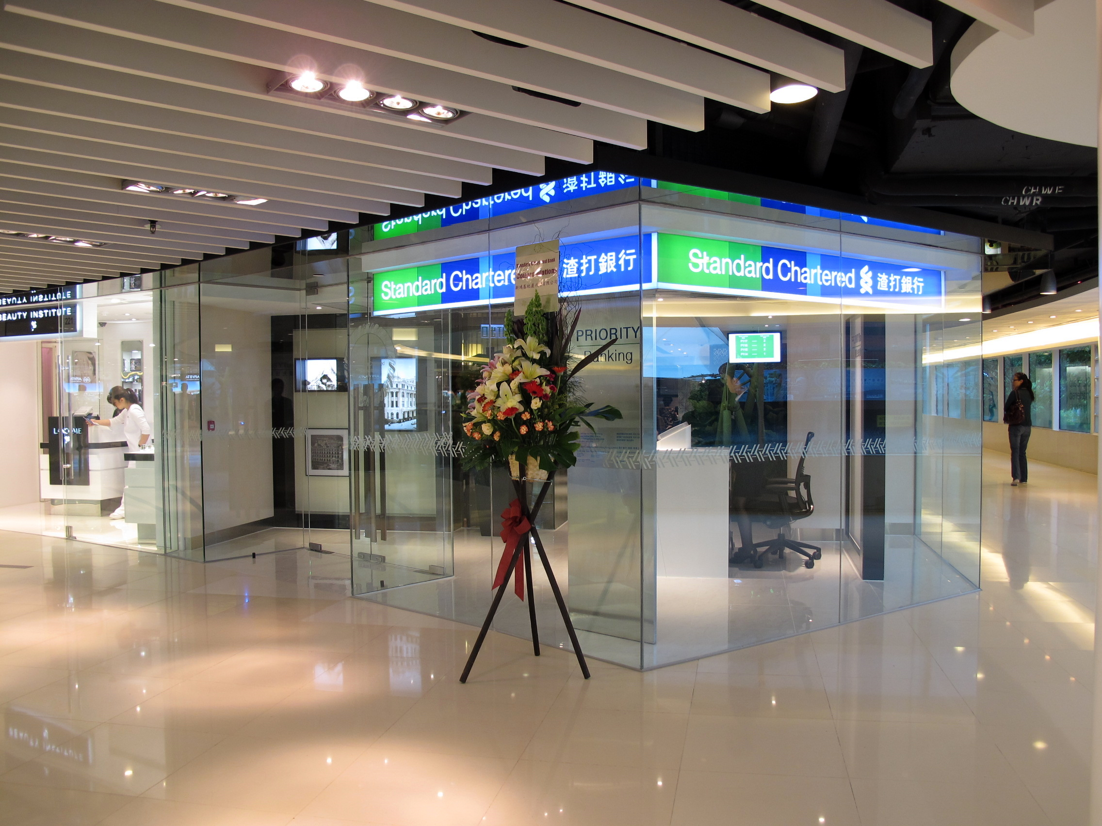 Standard Chartered Bank New Town Plaza Branches